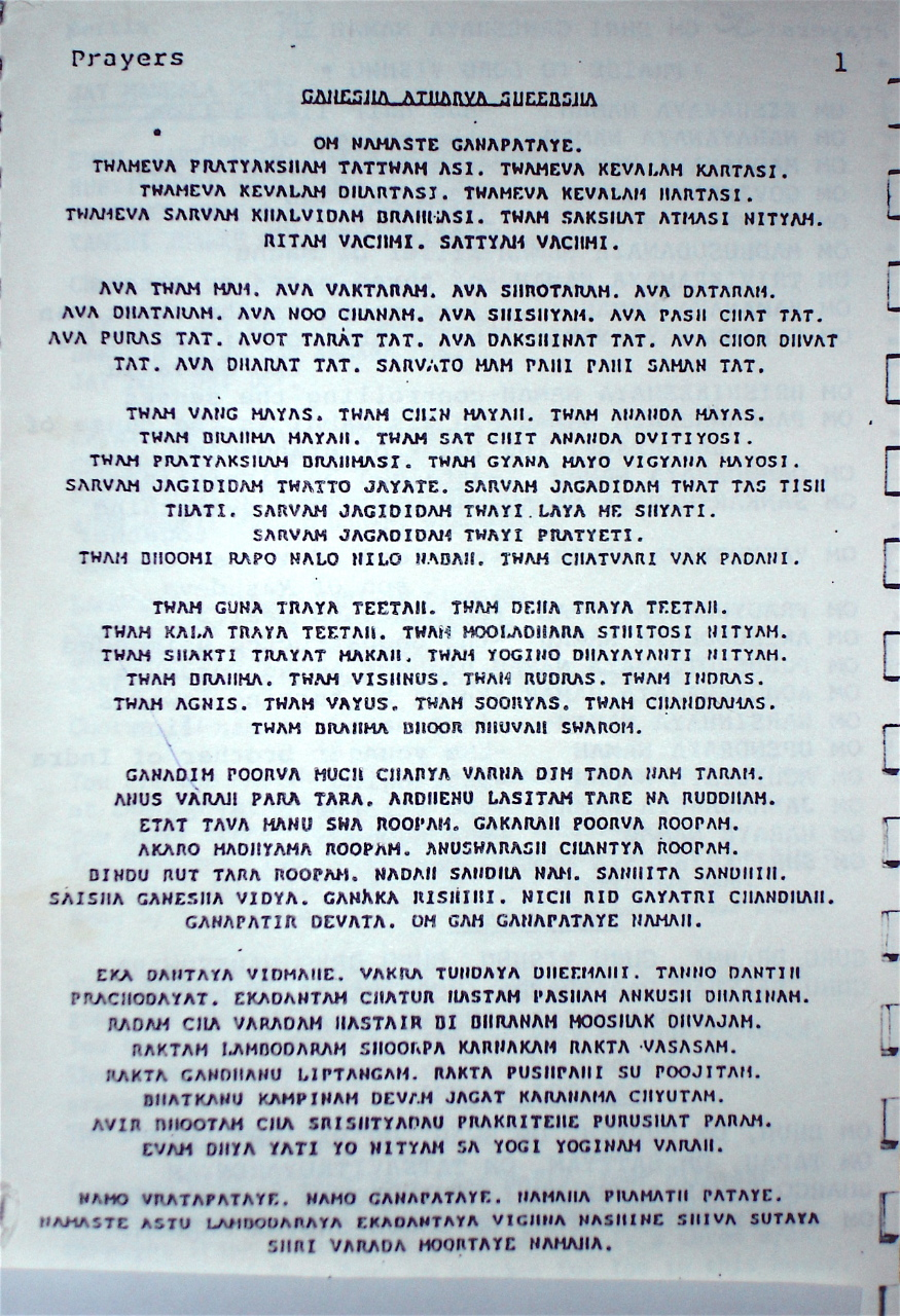 Prayer Ganesha Atharva Sheersha